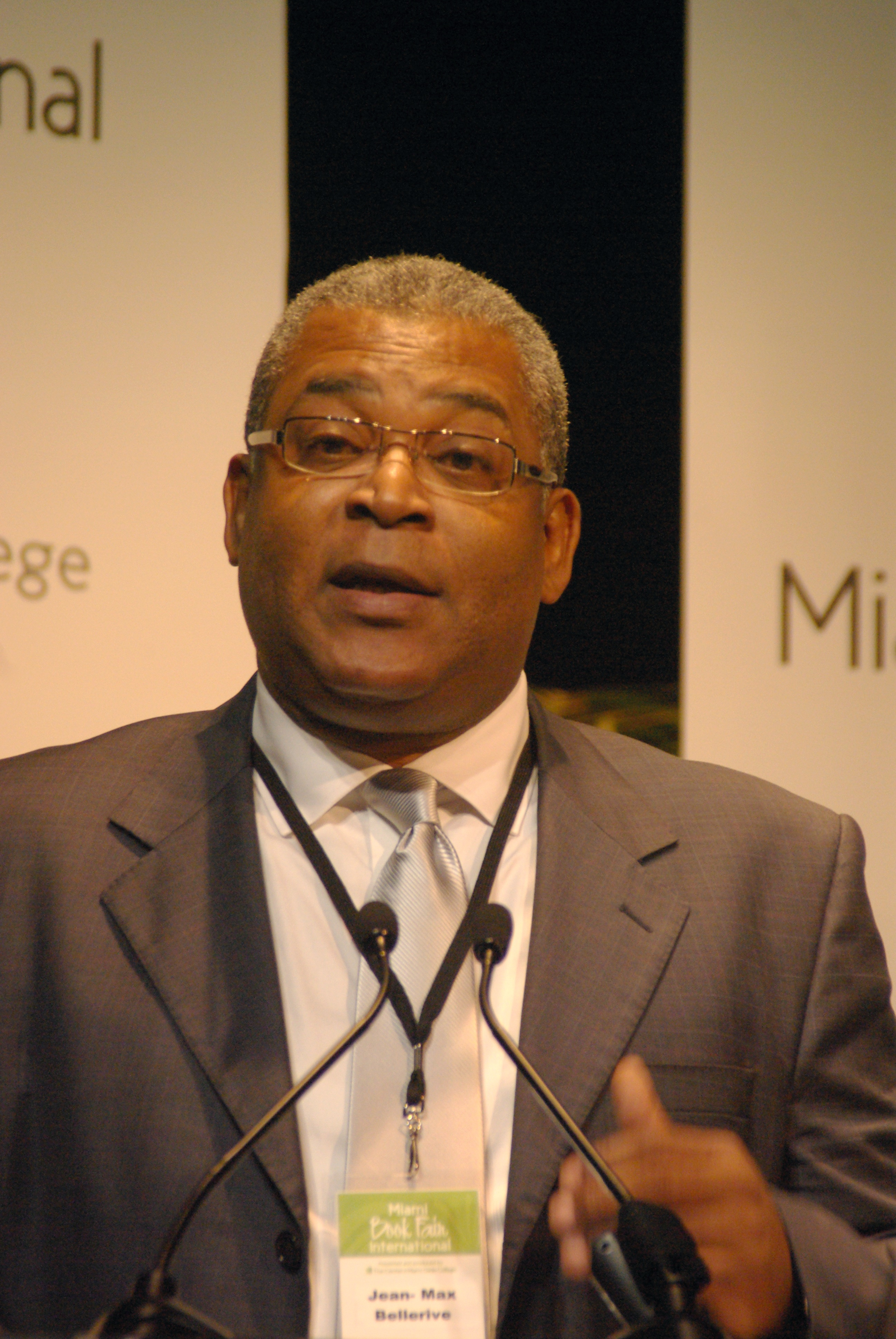 Former primer minister of Haiti, Jean-Max Bellerive speaks at the Miami Book Fair International 2011.